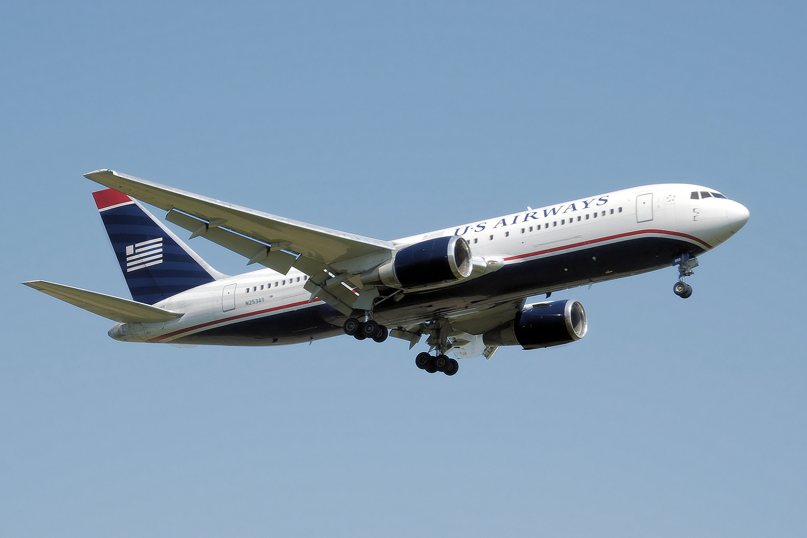 US Airways Boeing 767-200ER (N253AY) lands at London Heathrow Airport, England.